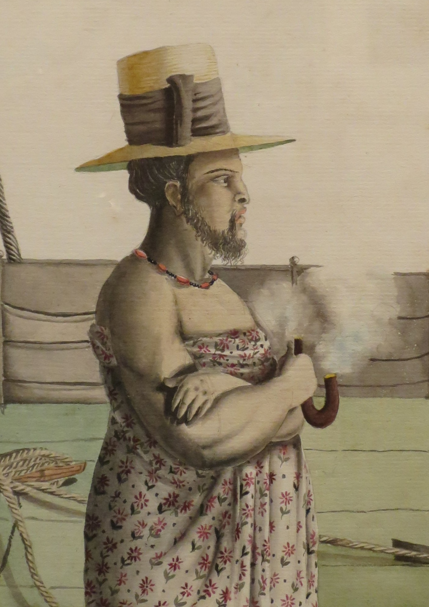 Governor Cox of Maui, ink and watercolor over graphite by Adrien Taunay the Younger, 1819, Honolulu Museum of Art, accession 21490